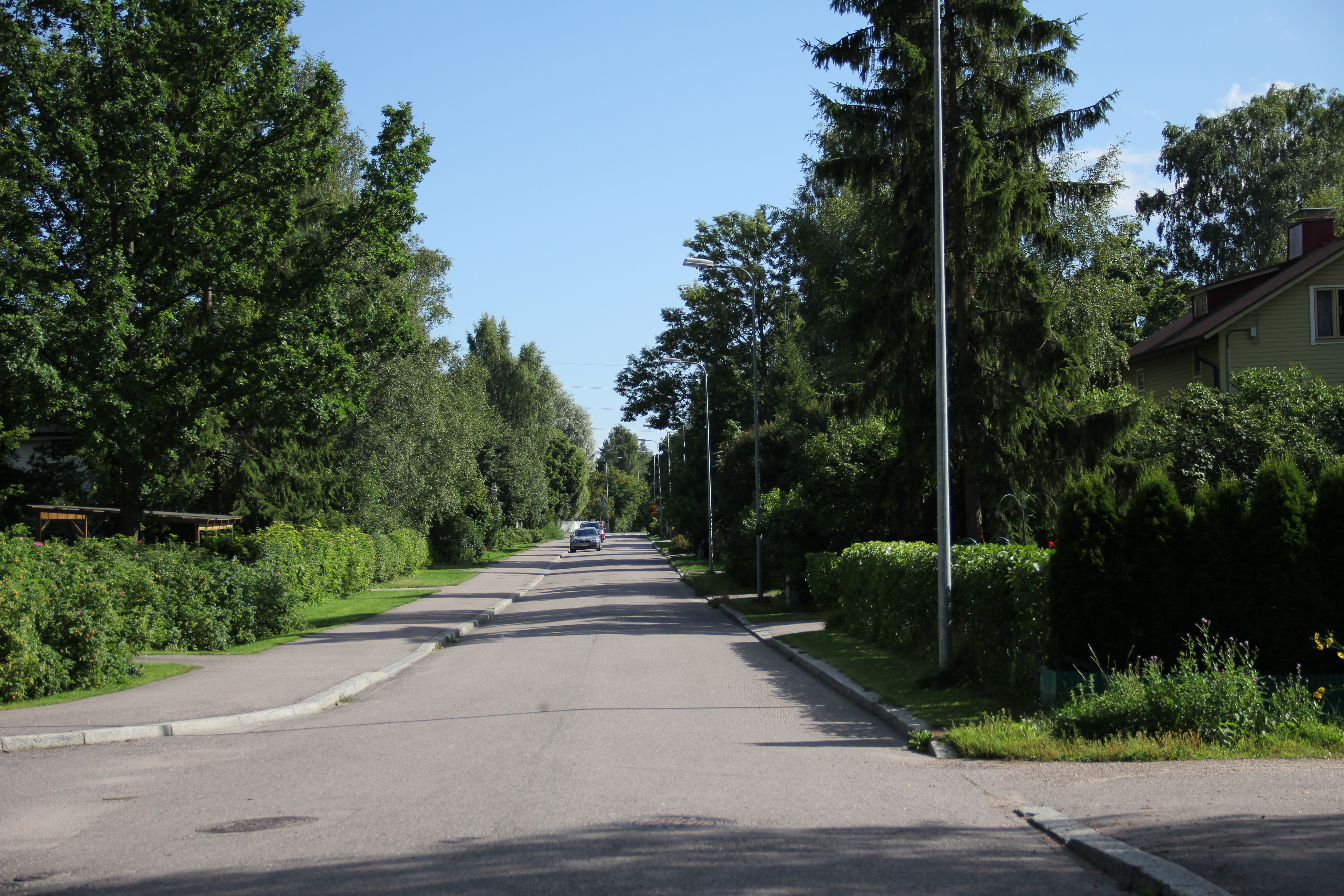 Olkitie, Töyrynummi, Helsinki, Finland. - A residential street